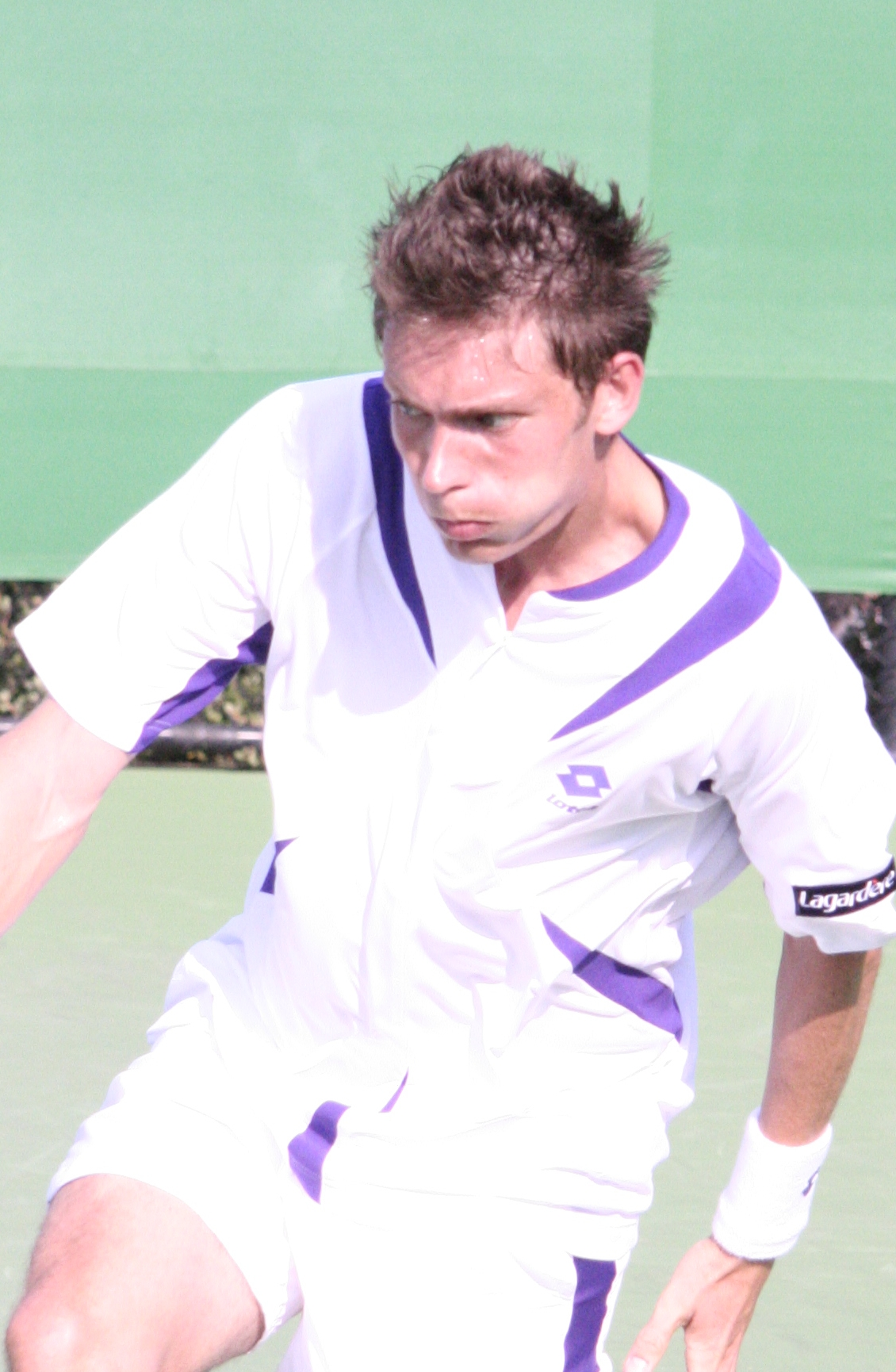 Nicolas Mahut at their first-round match of the 2007 Australian Open.